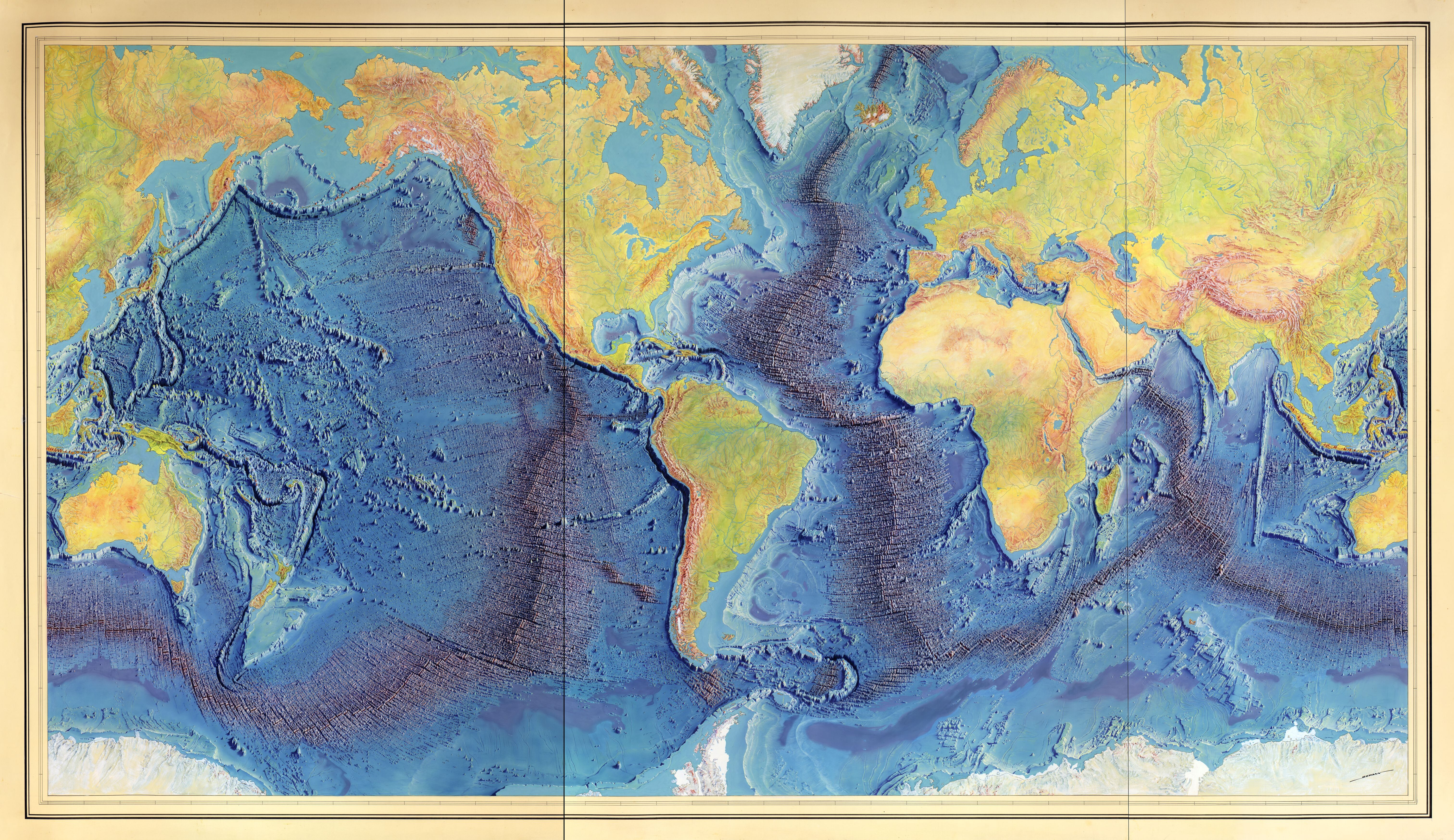 Painting of the Mid-Ocean Ridge with rift axis by Heinrich Berann based on the scientific profiles of Marie Tharp and Bruce Heezen (1977). (High-resolution versions are available at